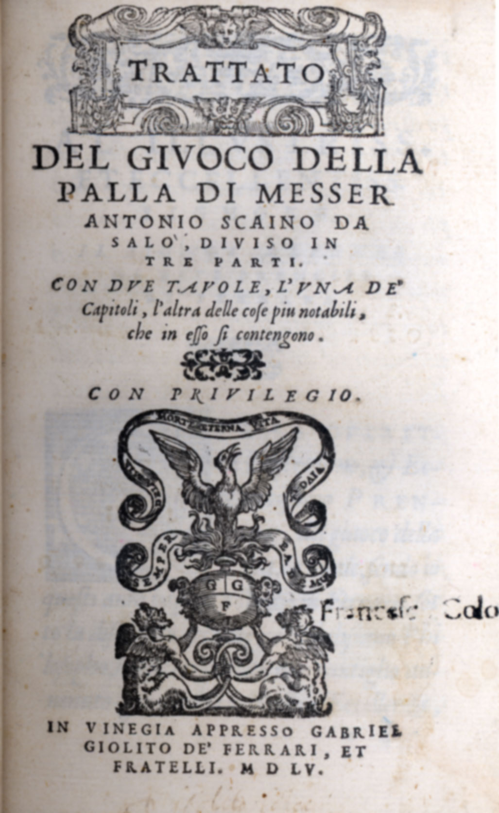 Title page of one of the first books about Jeu de Paume/Tennis.